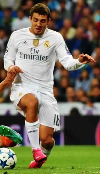 Mateo Kovačić